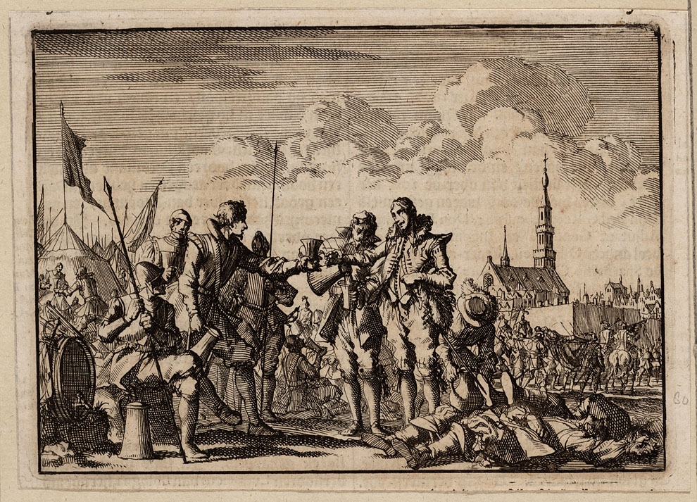 Friendly encounter between Spanish and Hollandish troops during an armistice at the siege of Breda (1637) by Frederick Henry